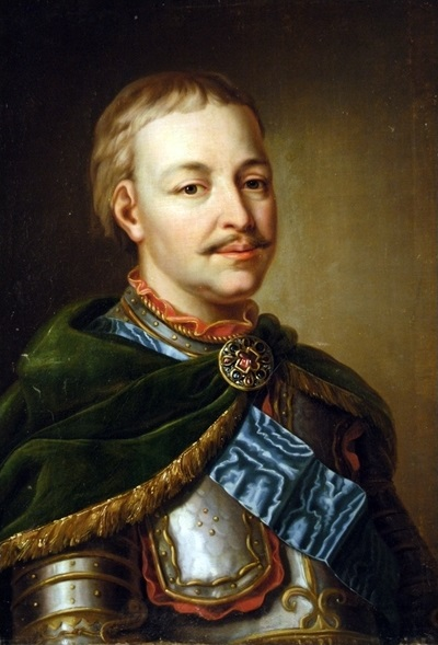 Portrait of Ivan Mazepa